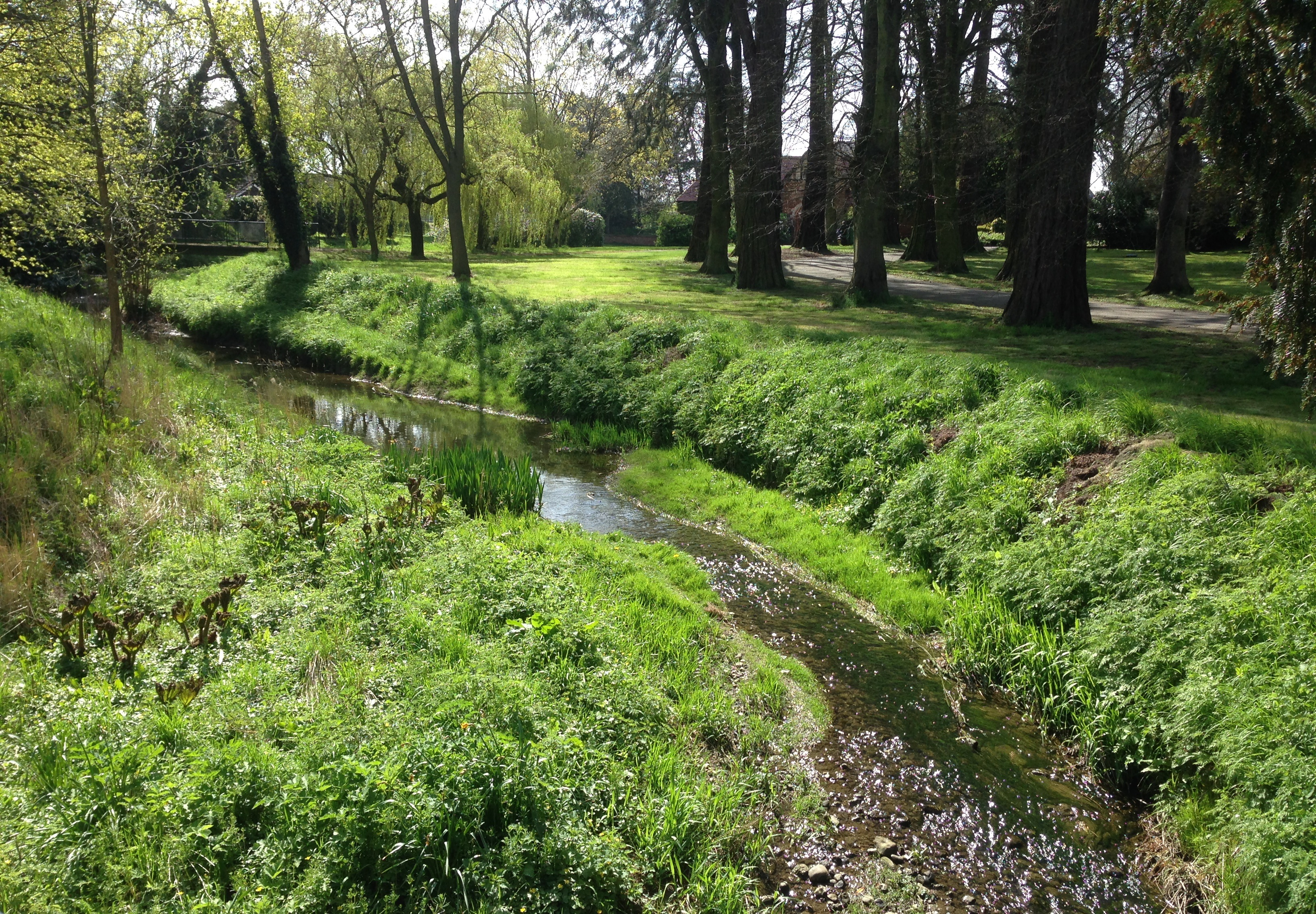 River Jordan upstream of Scotland Road, Little Bowden